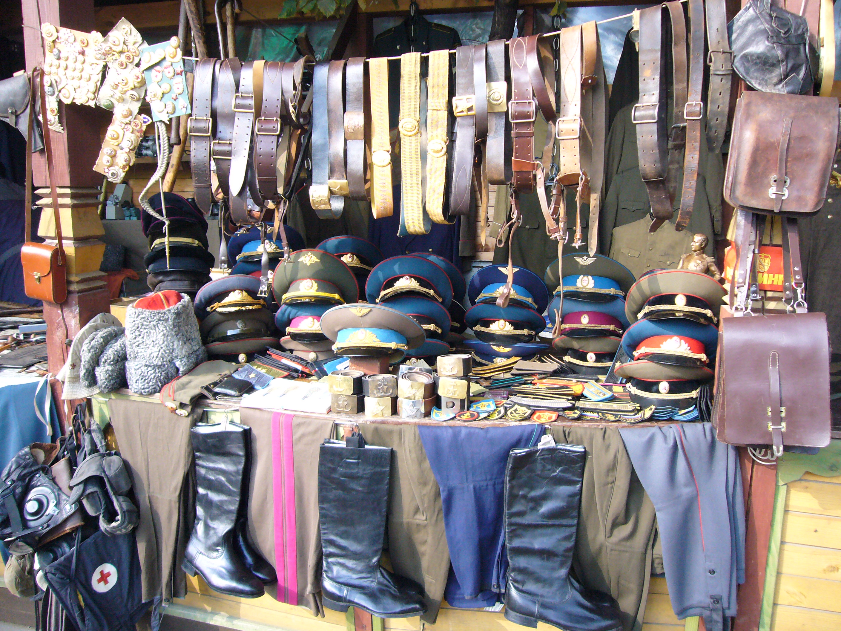 A collection of Soviet Army military uniform collectibles on sale in the Vernisazh in Izmailovsky Park, Moscow, Russia